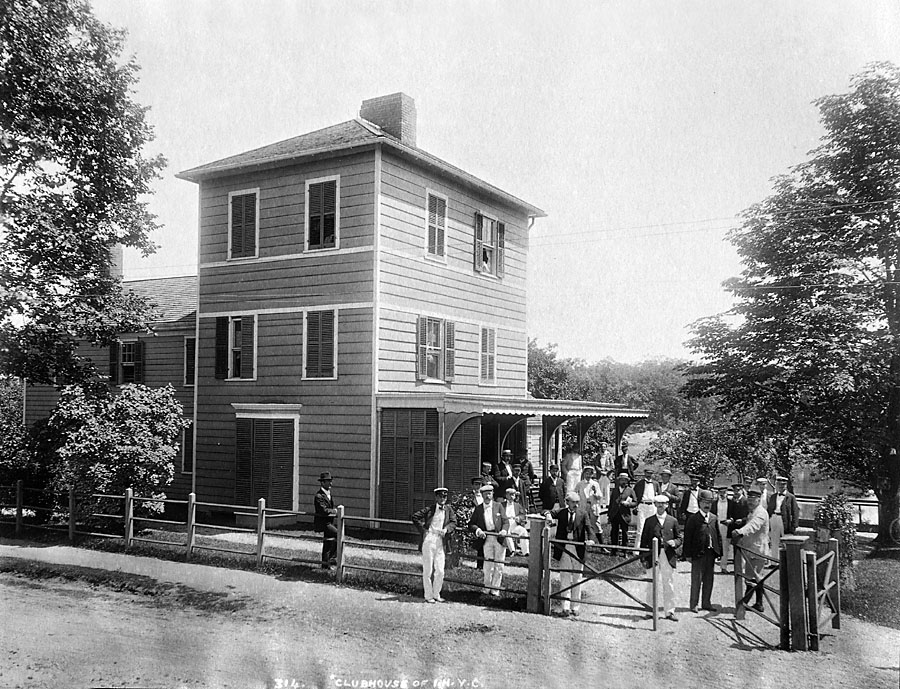 Club House of the Indian Harbor Yacht Club, as it appeared in the 1890s.